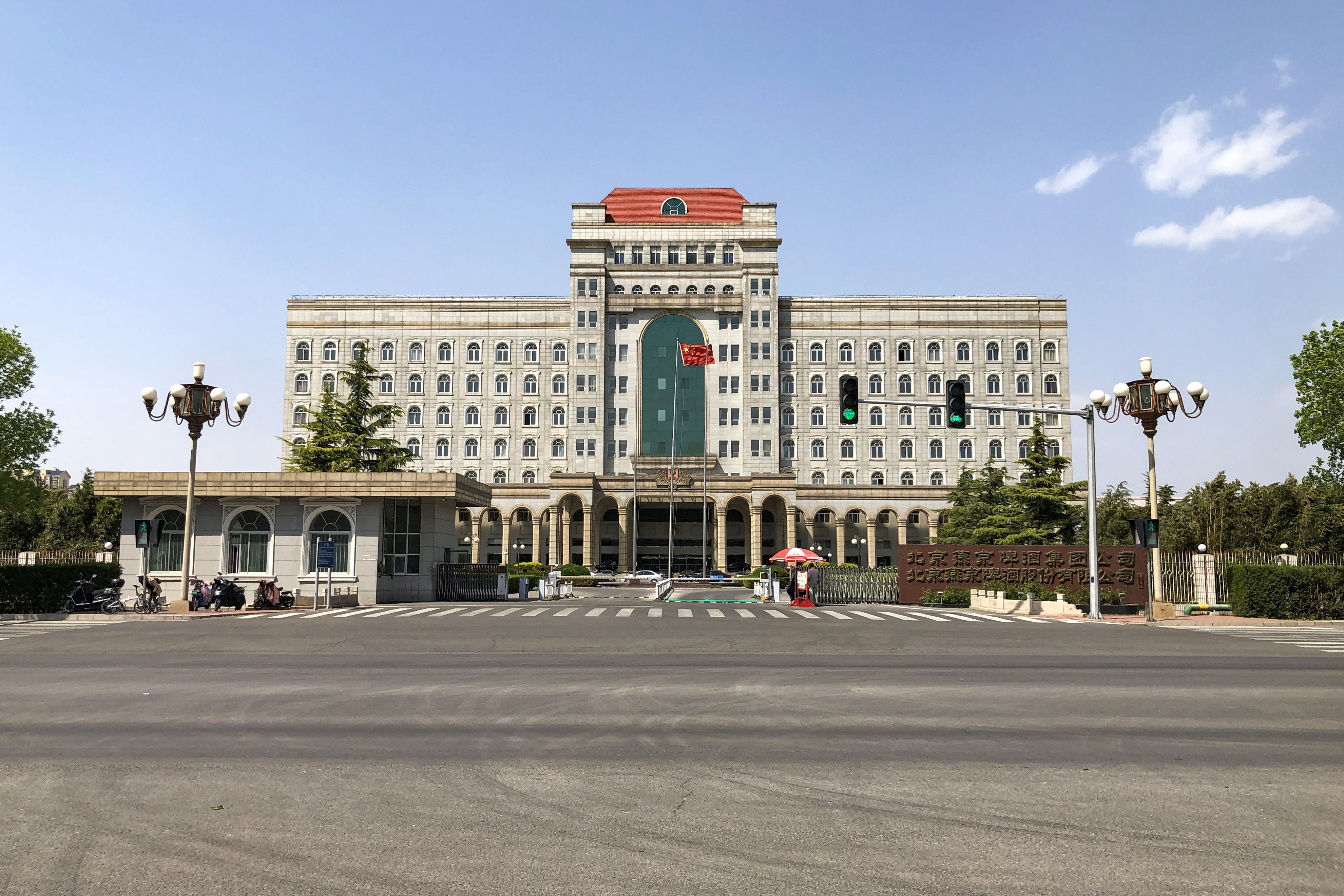 Somewhere east of the airport.